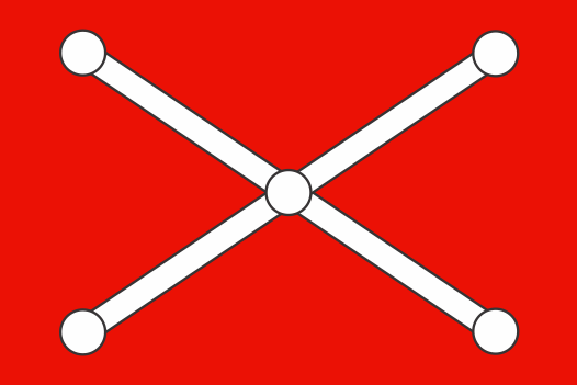 Quang Phuc Quan's (Restoration Army) Ngu Tinh Military Flag of Viet Nam Quang Phuc Hoi (Vietnam Restoration League)